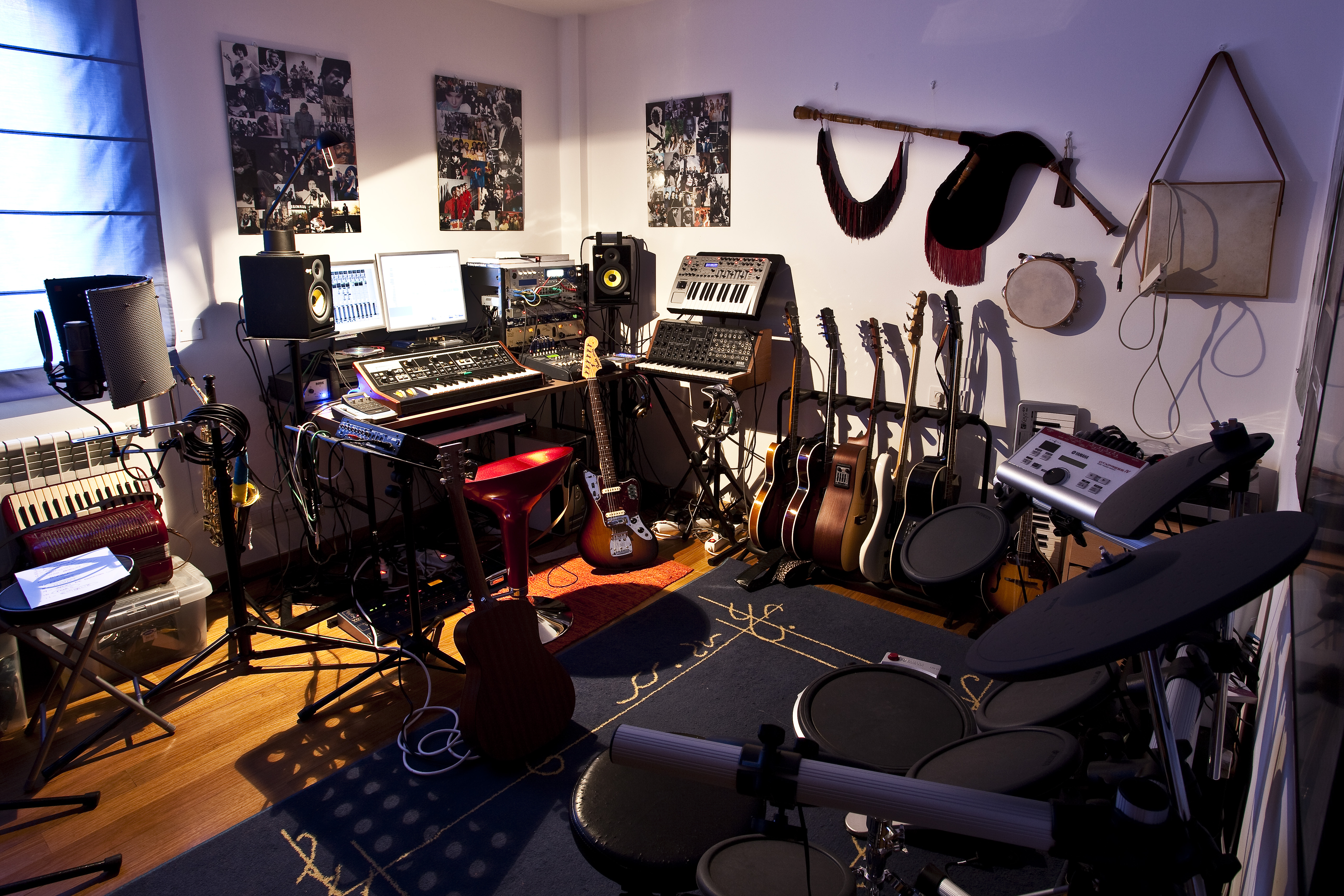 Fanny + Alexander's Home Studio